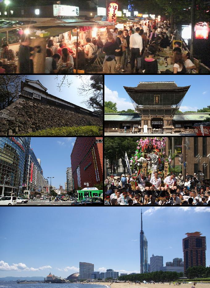 From top left: Yatai in Nakasu, Fukuoka Castle, Hakozaki Shrine, Tenjin, Hakata Yamagasa, Seaside momochi and Fukuoka Tower.